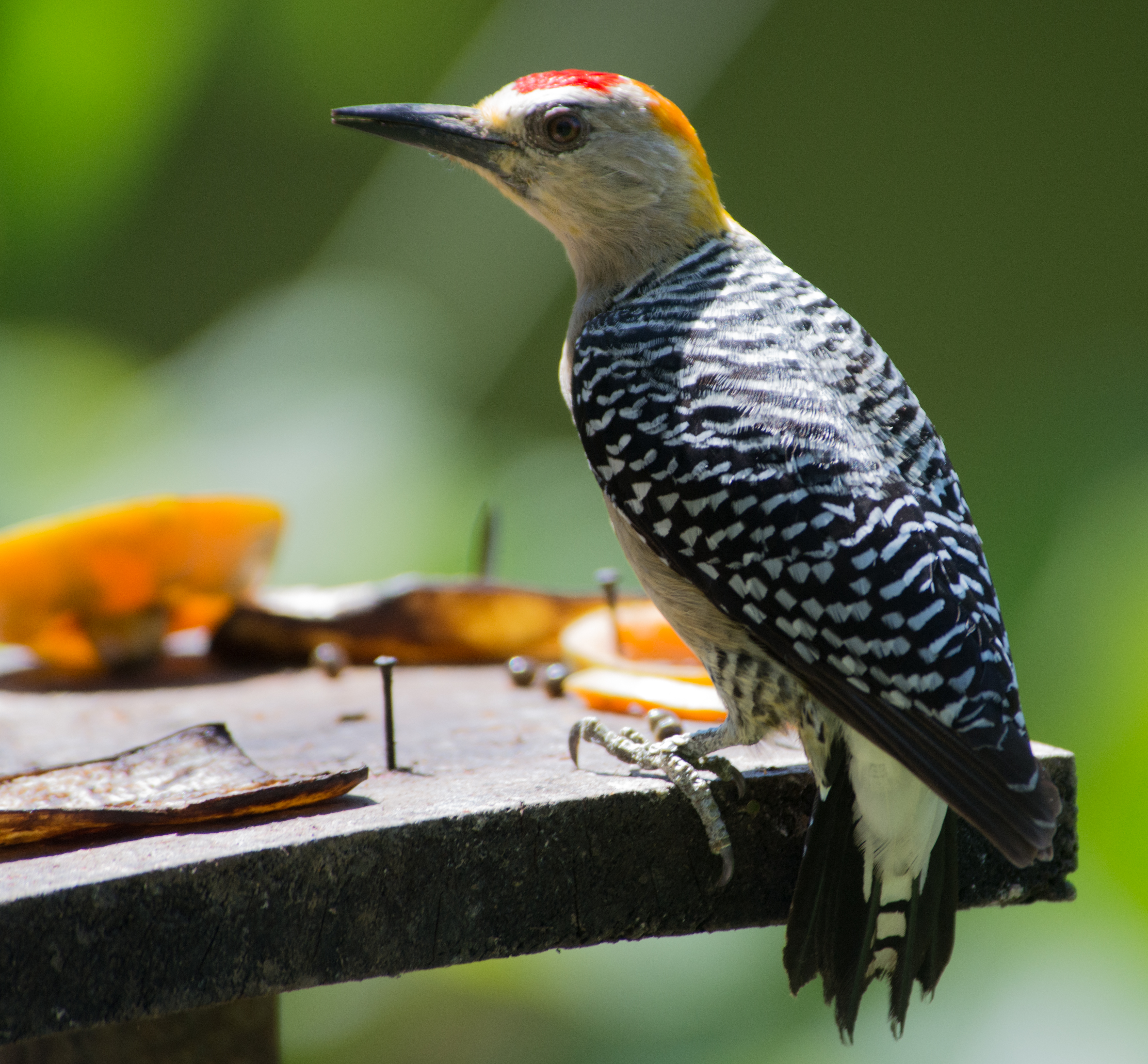 A male Hoffmann's Woodpecker Melanerpes hoffmannii perches on a bird feeder. Taken in Costa Rica, near Monteverde.